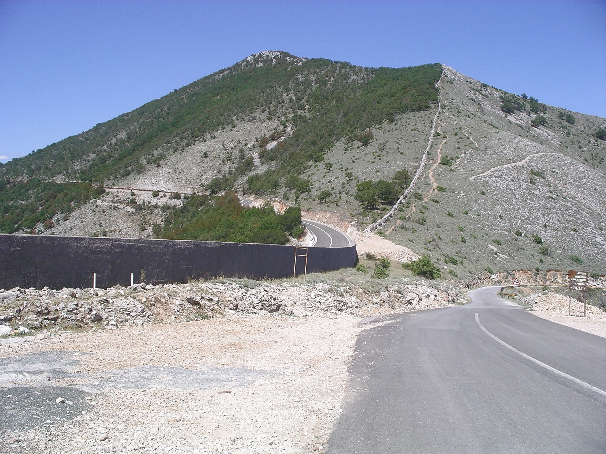 The road to Beli, Cres Island, Croatia